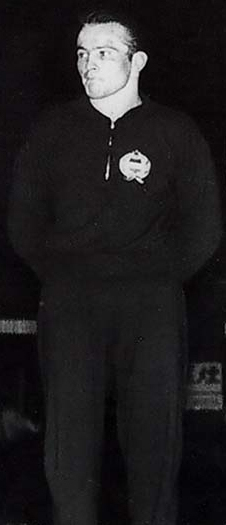 L-r: Géza Hollósi, Mansour Mehdizadeh, Hans Antonsson at the 1961 World Championships